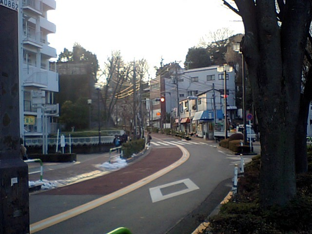 Semezaka,Kaminakazato,Kita-ward,Tokyo,JAPAN